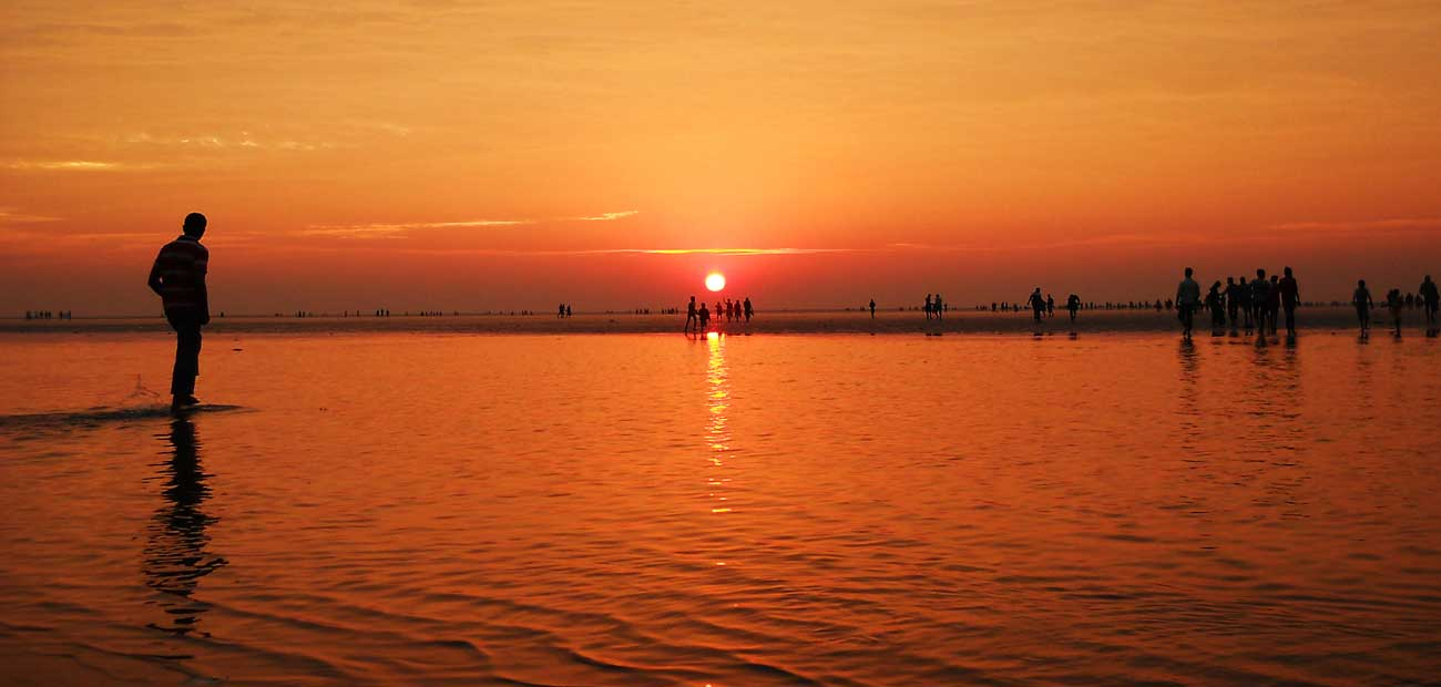 The Beautiful Sunrise at the Chandipur Sea Beach